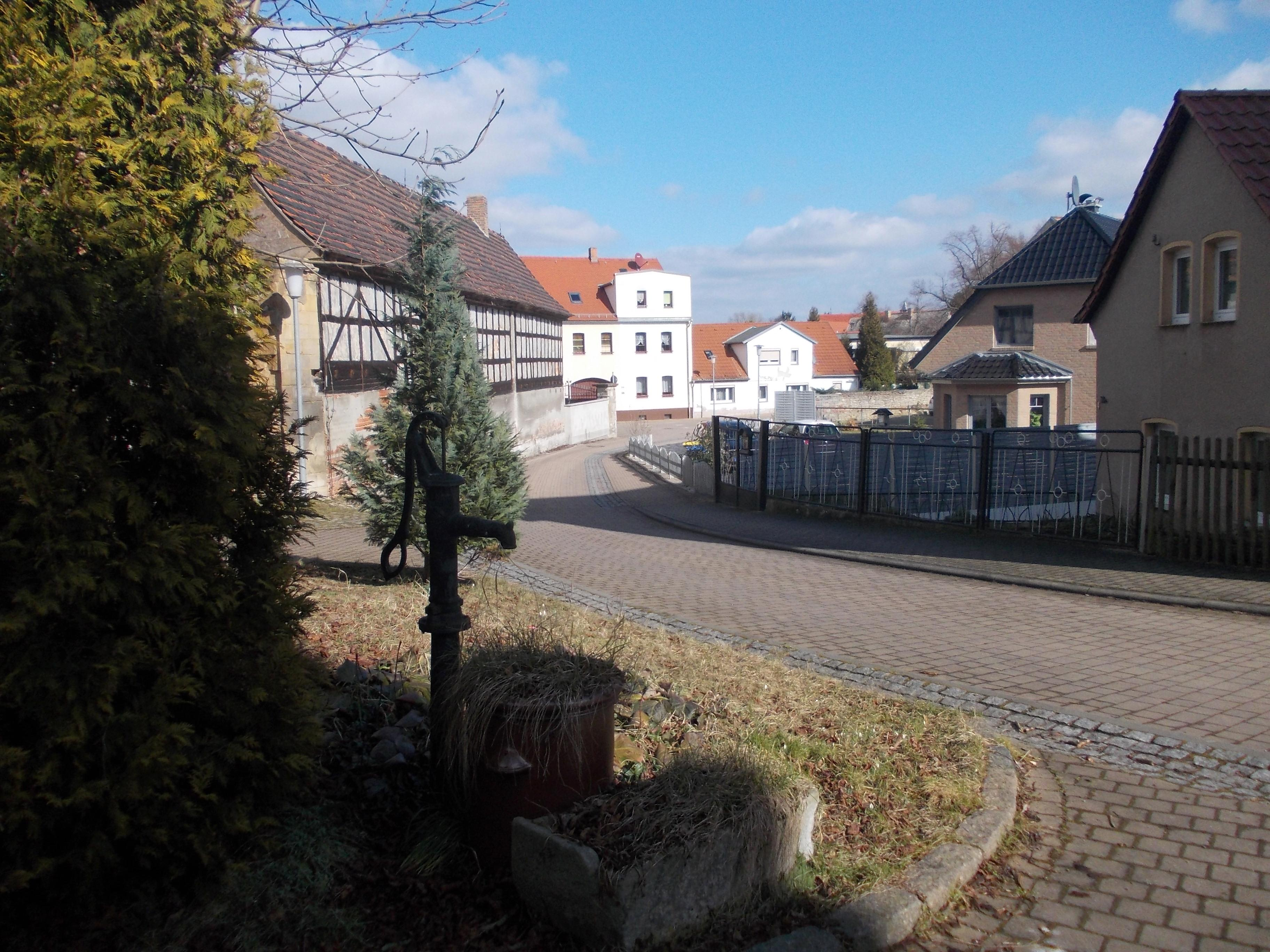 Schulstrasse in Gröben (Teuchern, district: Burgenlandkreis, Saxony-Anhalt)